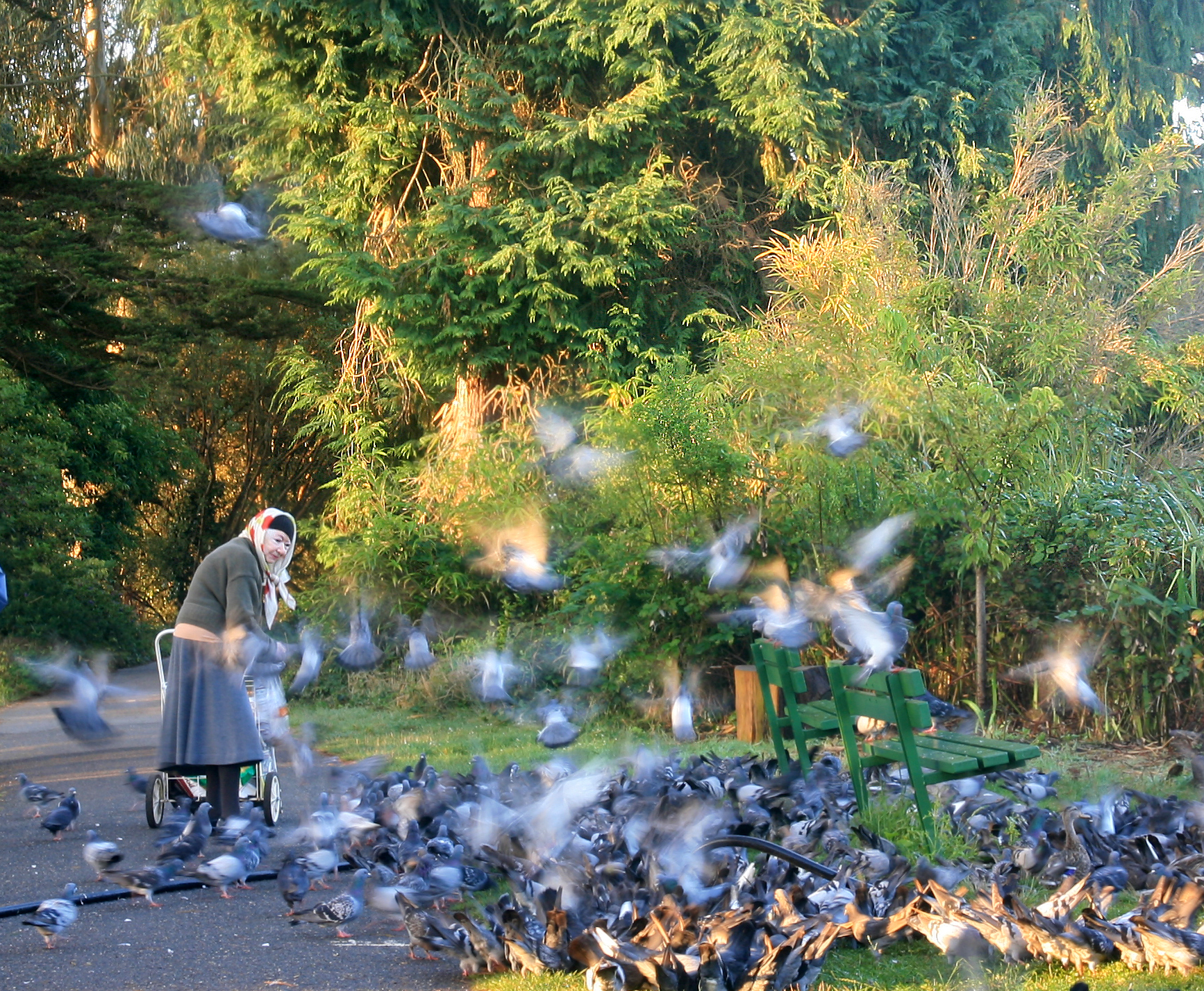 Feeding pigeons, Columba livia